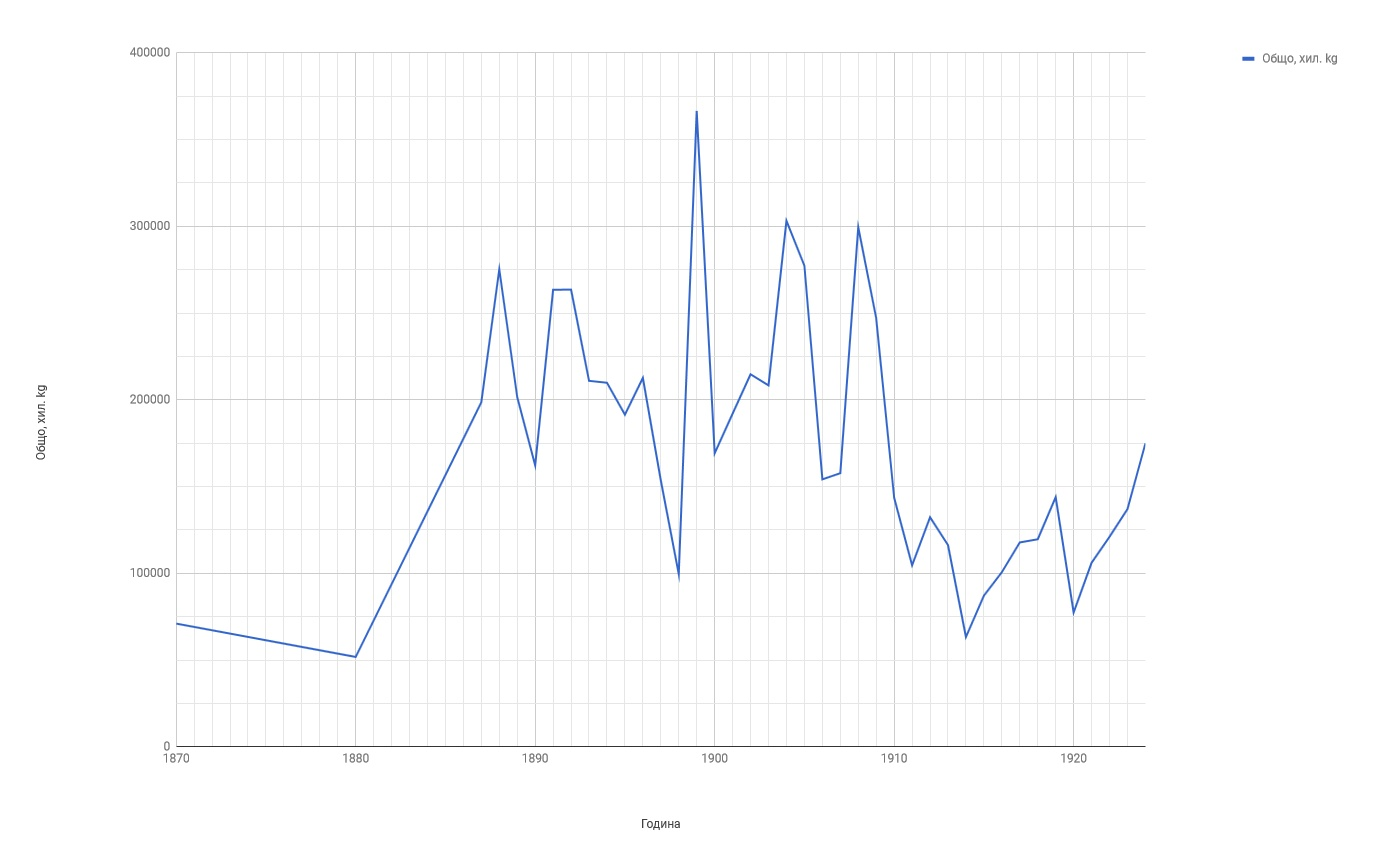 Wine grape yields in Bulgaria, 1870-1924